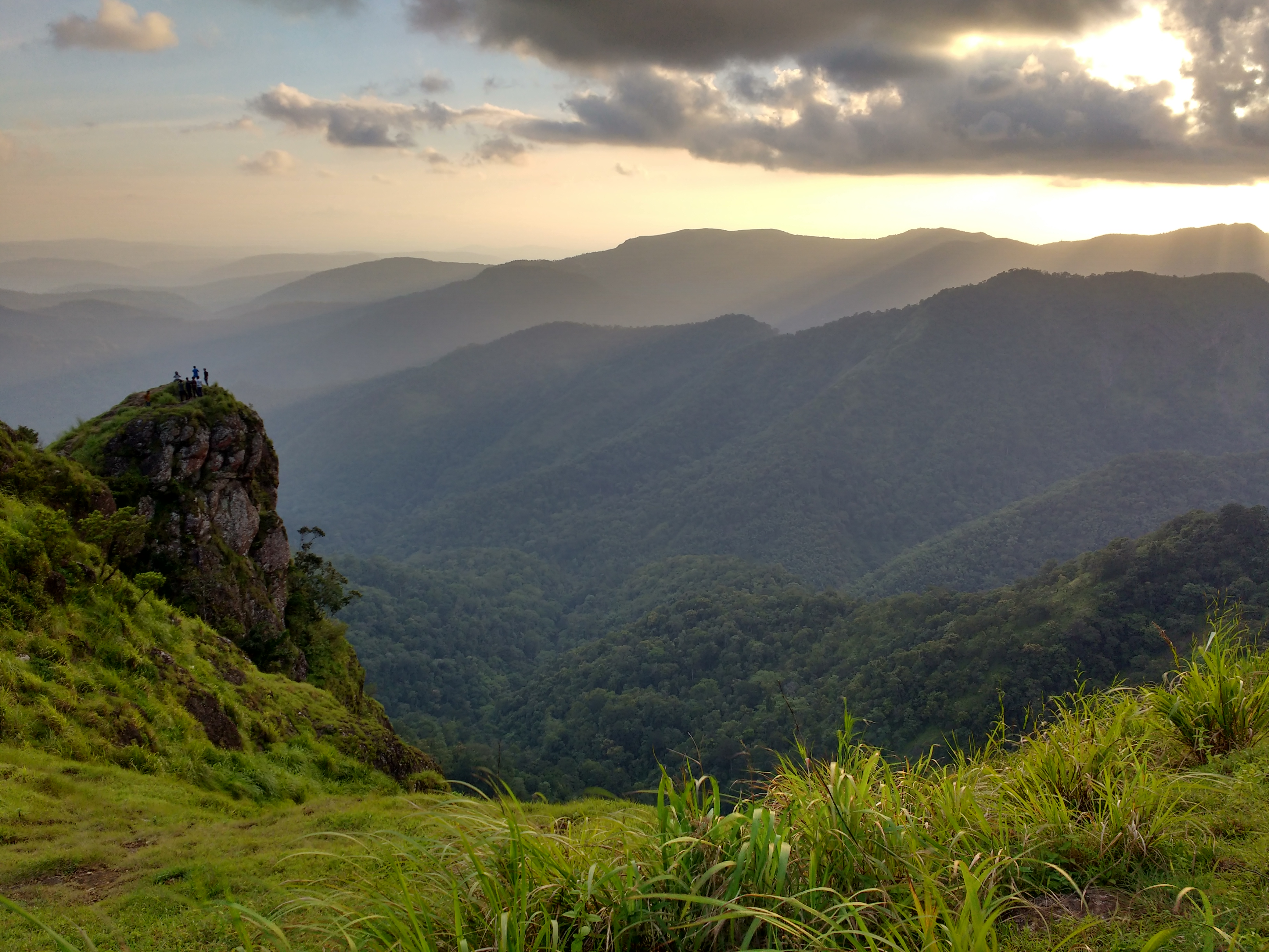 This a view from Parunthumpara, Pambanar, Kerala took on 2015/09/13 evening.